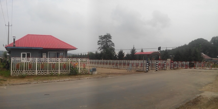 Laogugou Railway Station